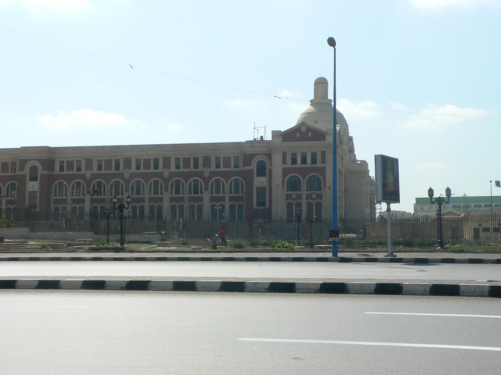 San Mark school, Alexandria, Egypt.